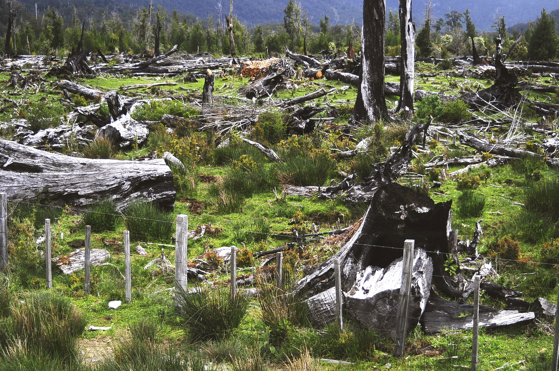 Primary forest burned for pasture, Aysén, Chile